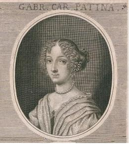 Engraving from the German Academy of the Noble Arts of Architecture, Sculpture and Painting, or Teutsche Academie, a comprehensive dictionary of art by Joachim von Sandrart, published in 1675 and later illustrated with engravings in 1683.Beschriftet: GABR. CAR. PATINA.